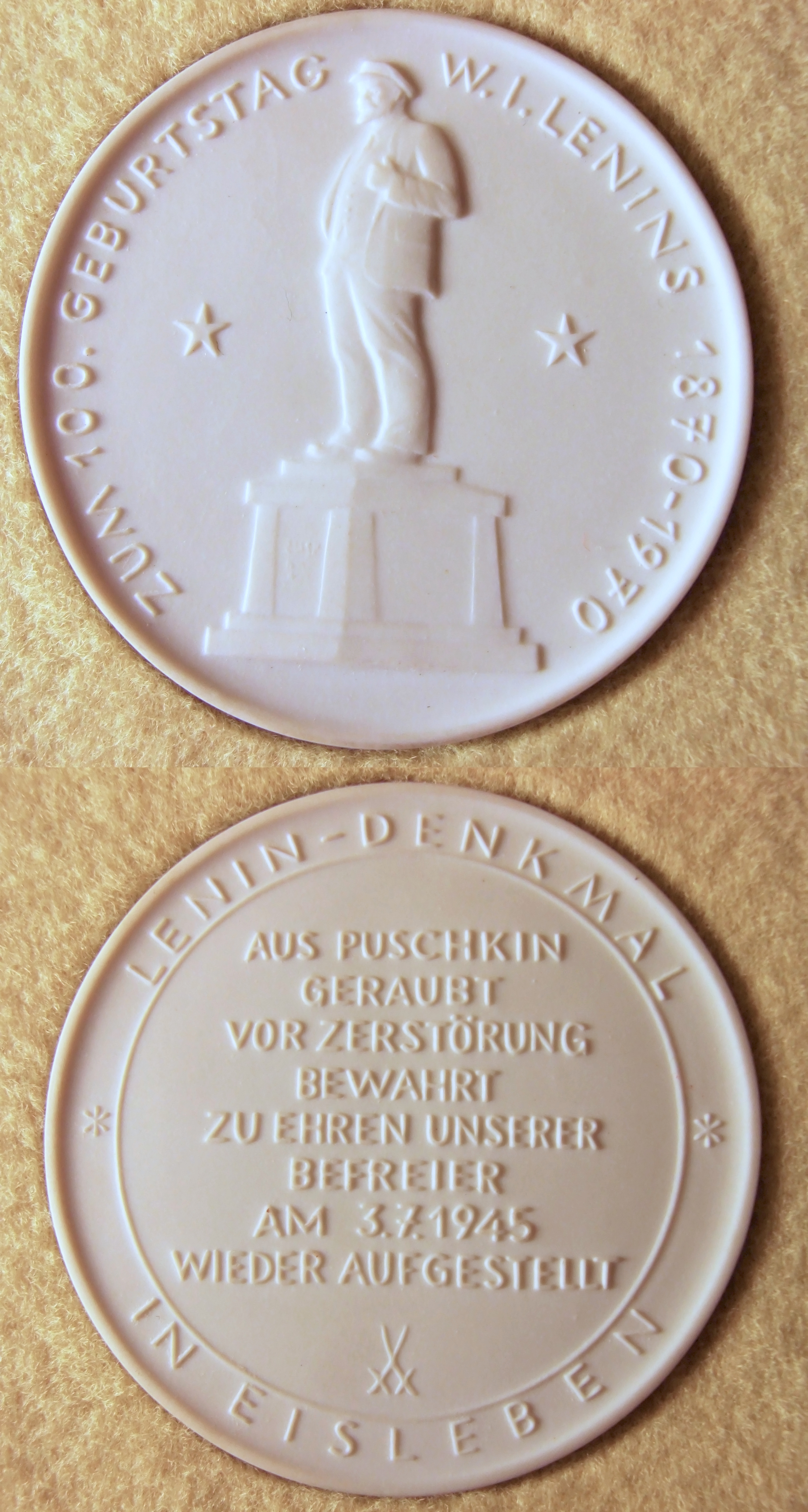 Lenin-Memorial in Eisleben, Meissen porcelain medal 1970